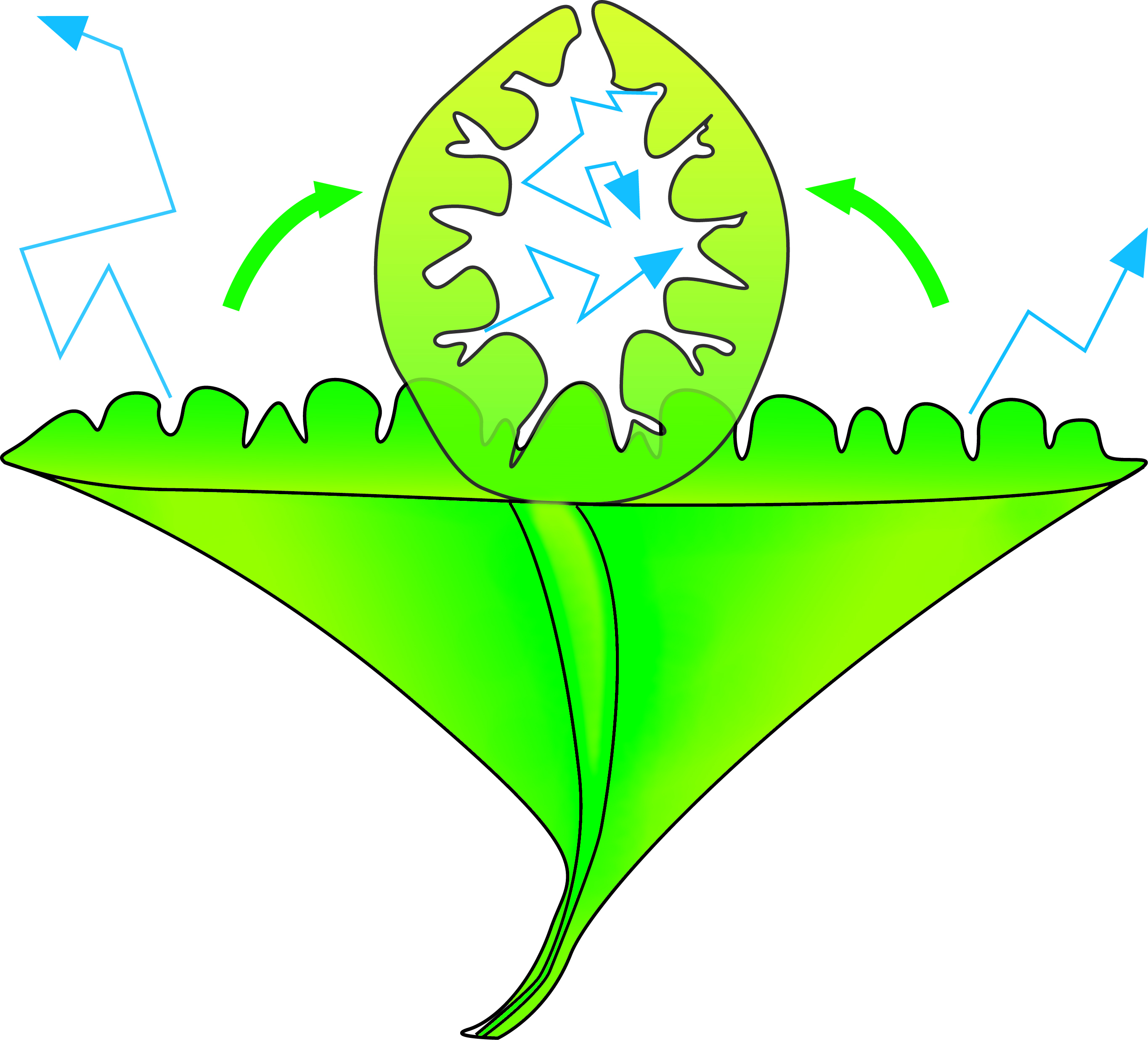 Waterstress lets Beachgrass roll their leaves, preventing watermolecules from getting blown away and overall reducing the amount of water lost trough open stomata.